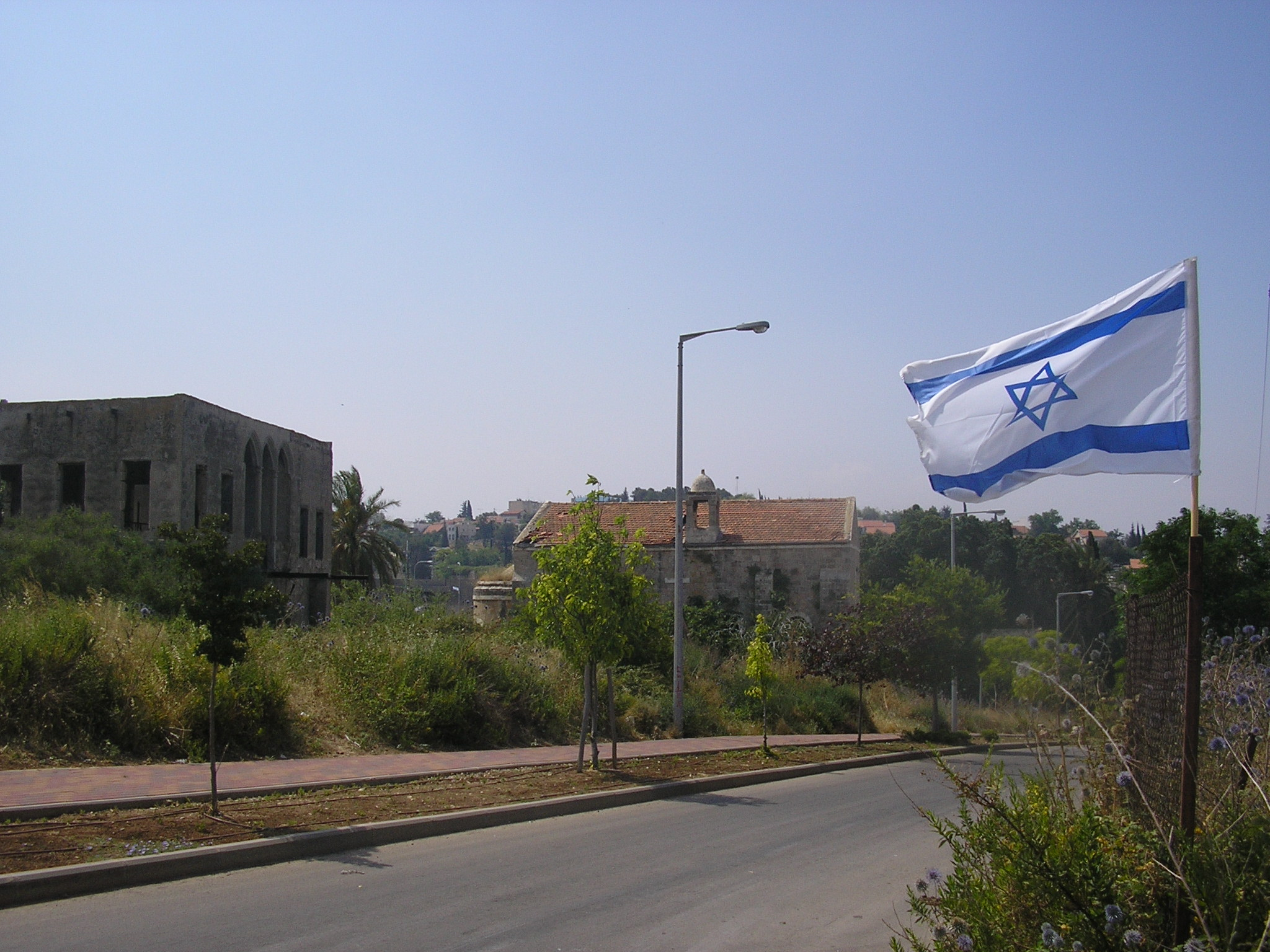 Ruins of 2-storied private house and the delapidated Roman Catholic Church in the ruined arab village of al-Bassa north of Shlomi, Israel. שרידי הכנסייה רומית קתולית בכפר ההרוס באסה ליד שלומי, ישראל